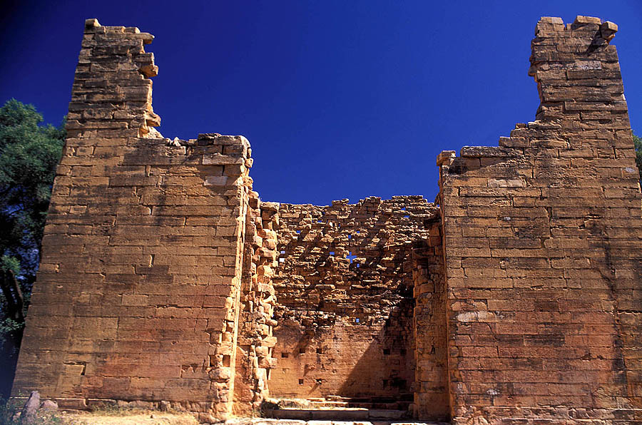 The temple in Yeha, Tigray region, is dated back ca. 8th century BC and believed to be one of the oldest structures in Ethiopia.